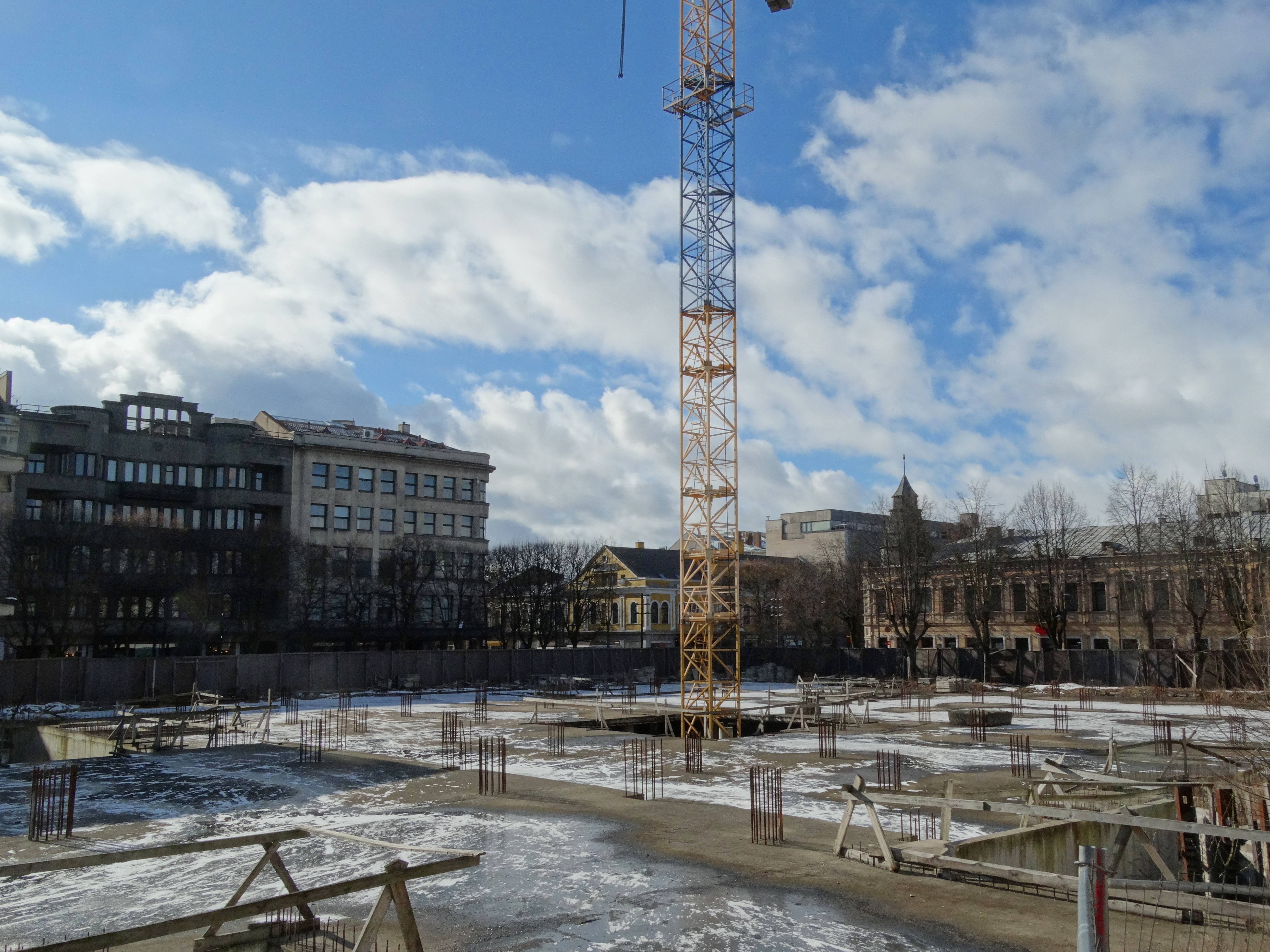 Construction of new „Merkurijus" shopping centre, Kaunas, Lithuania